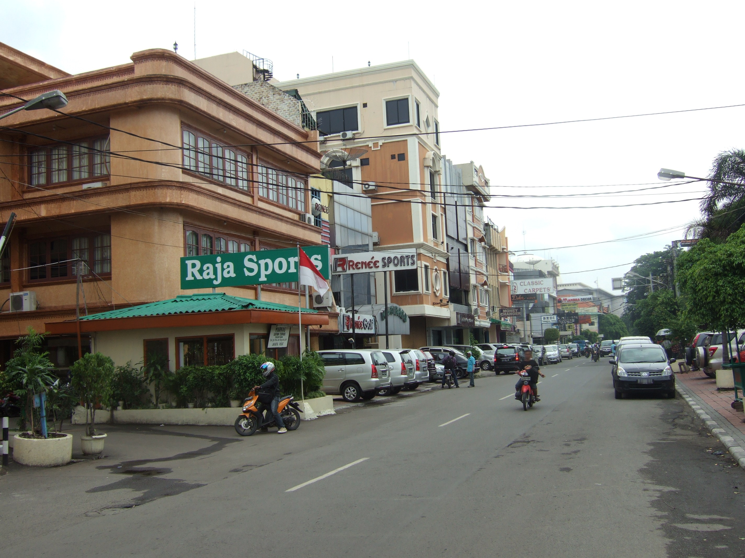 Jalan Pintu Air, Pasar Baru, Jakarta Pusat, Indonesia